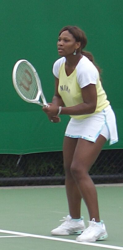 See information at source image: Image:Serena Williams waiting to return serve Australian Open 2006.JPG